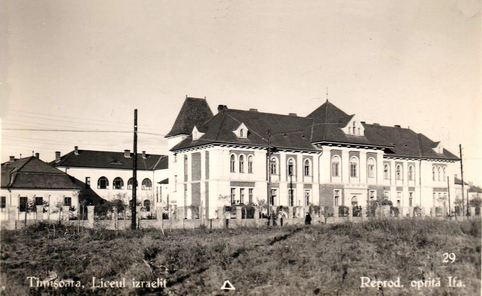 Israelite boarding school in Timisoara, 1930